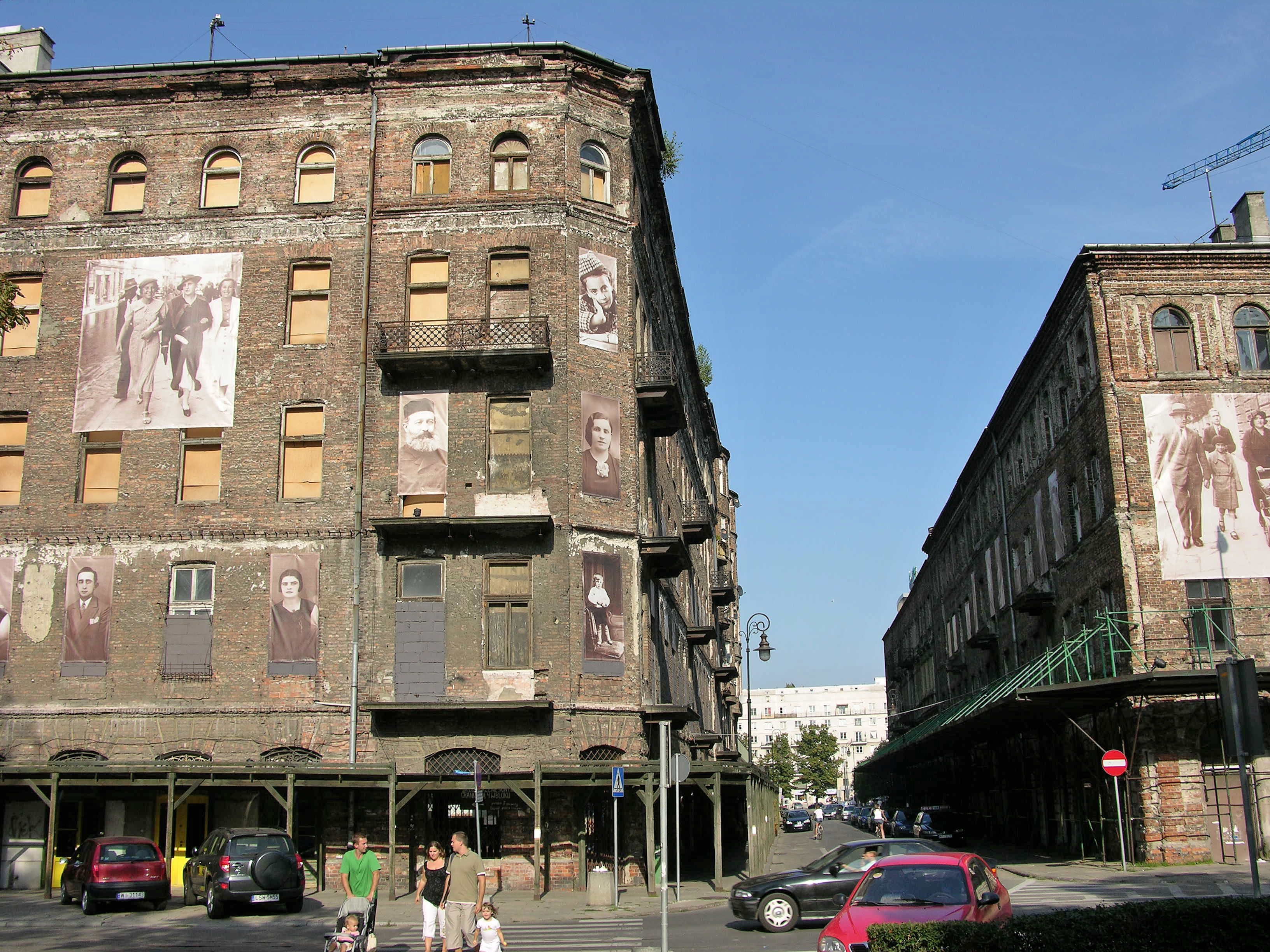 Próżna Street in Warsaw